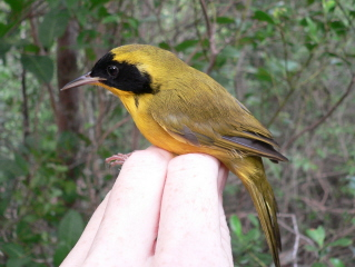 A Bahama Yellowthroat (Geothlypis rostrata) held in a person's hand. The full resolution version is copyrighted and can be found here.